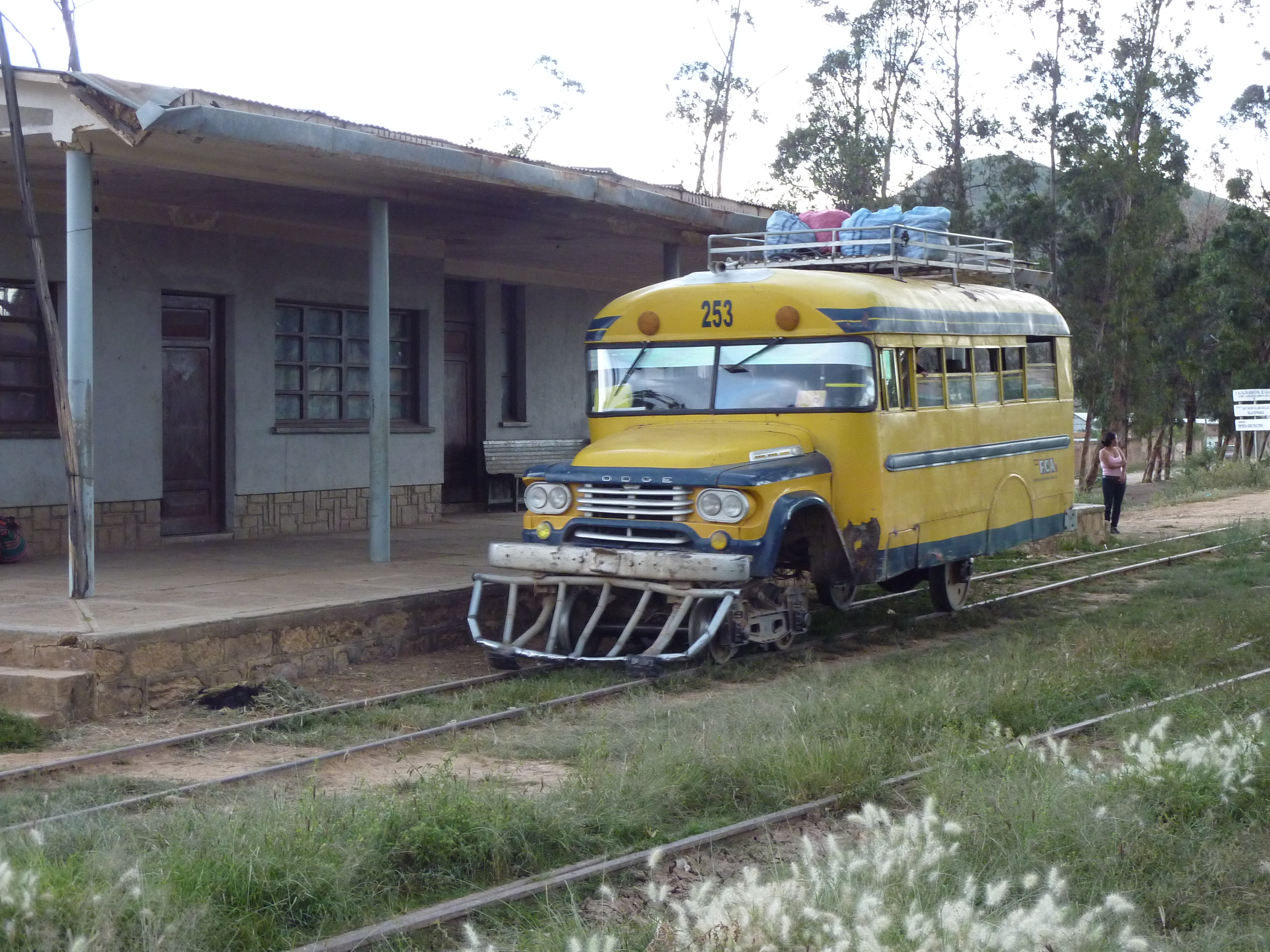 Rail-bus at Aiquile station in Bolivia